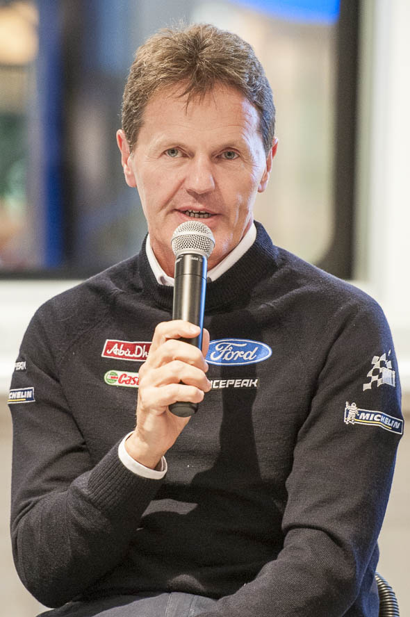 Wales Rally GB 2011 Builth Wells,GBR,Großbritannien,Llanelwedd Community,Malcolm Wilson,Motorsport,Rally,Rallye,Wales,Wales Rally GB